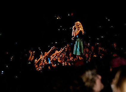 Taylor Swift